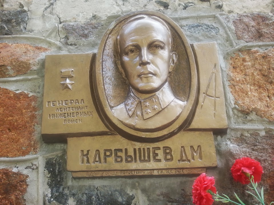 Memorial desk of the soviet gen. Dmitri Karbyshev on the Stalin's Line in Korosten (Ukraine)